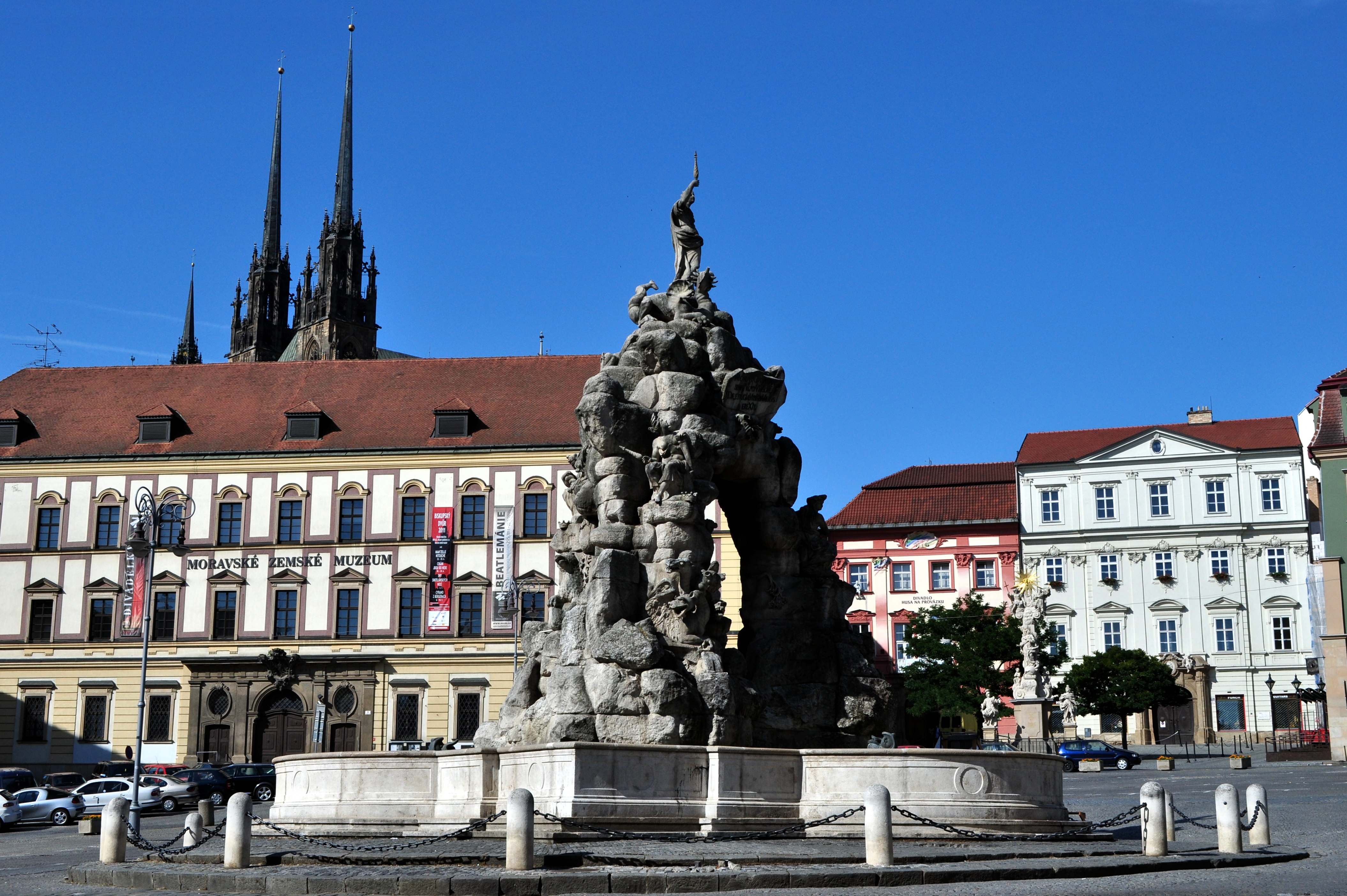 Zelný trh (vegetable market square) in Brno, Moravia, Czech Republic